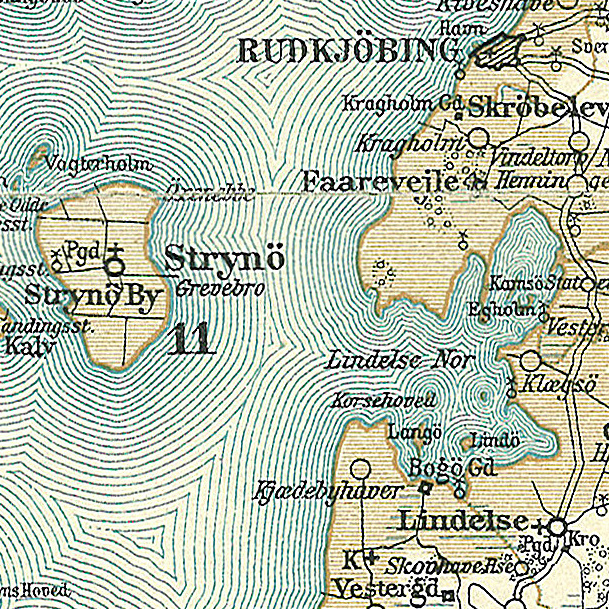 Map of Lindelse Nor on Langeland, and Strynø in Denmark